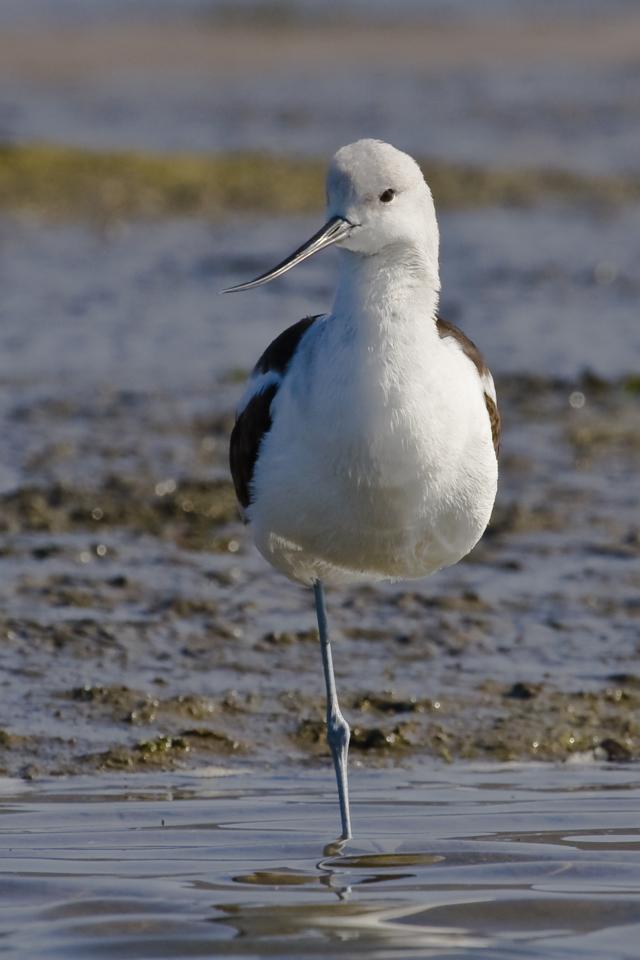 American Avocet (Recurvirostra americana) in the Morro Bay, CA Estuary mudflats, Morro Bay, CA Sat. Nov. 17, 2007 017nov2007 Photo by Mike Baird, Canon 20D w/ 100-400mm IS lens handheld from a kayak